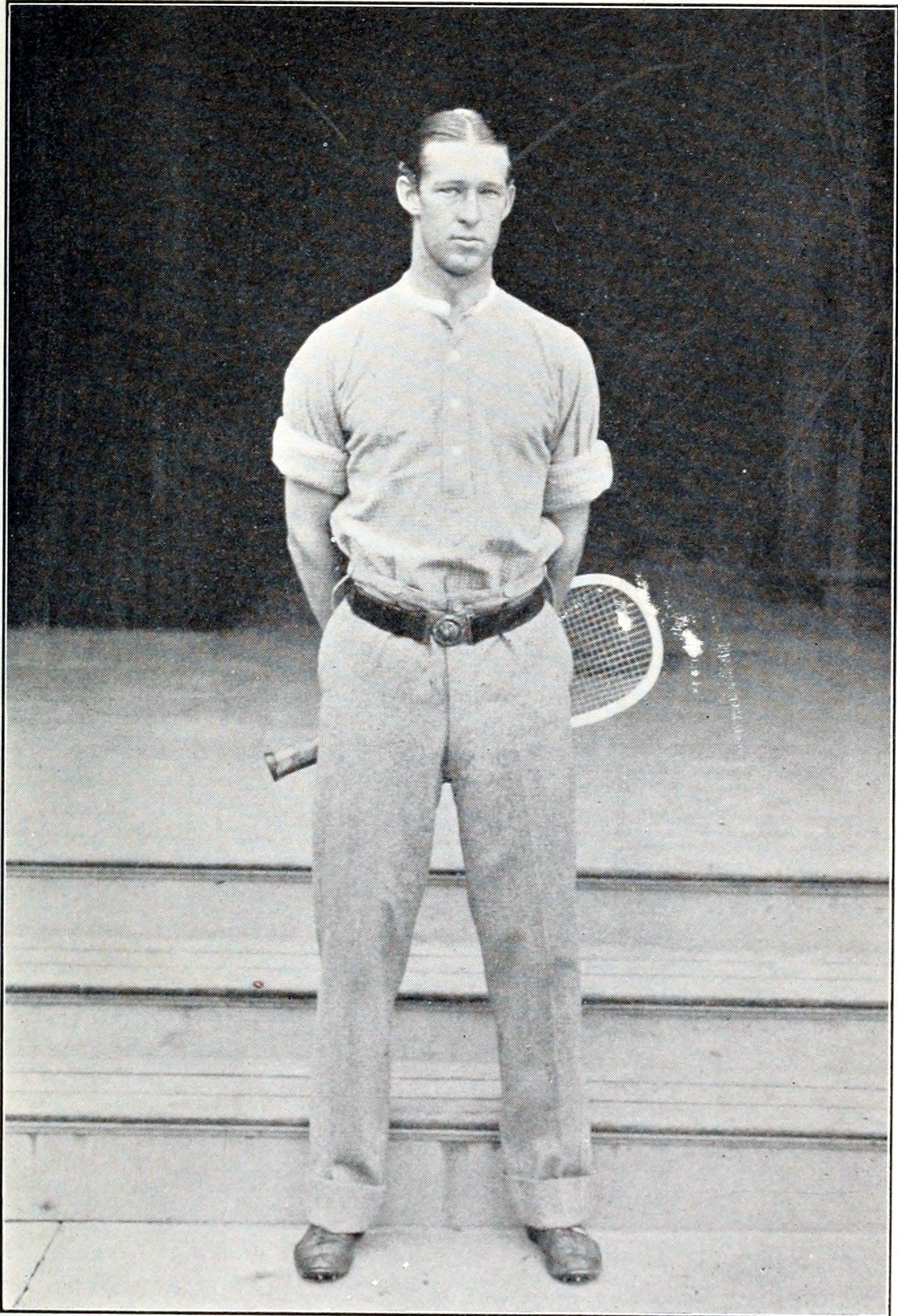 American male tennis player William Augustus Larned